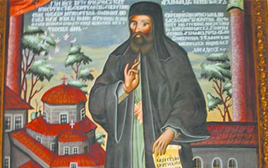 Arsenius of Bigor